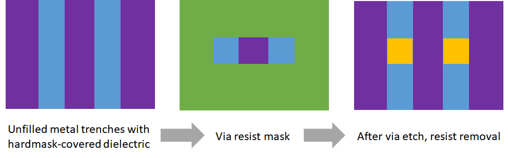 Self-aligned via patterning scheme. Left: Patterned unfilled trenches (blue). Center: Resist mask. Right: Vias patterned by etching through resist mask and hardmask (purple) surrounding trenches (blue).